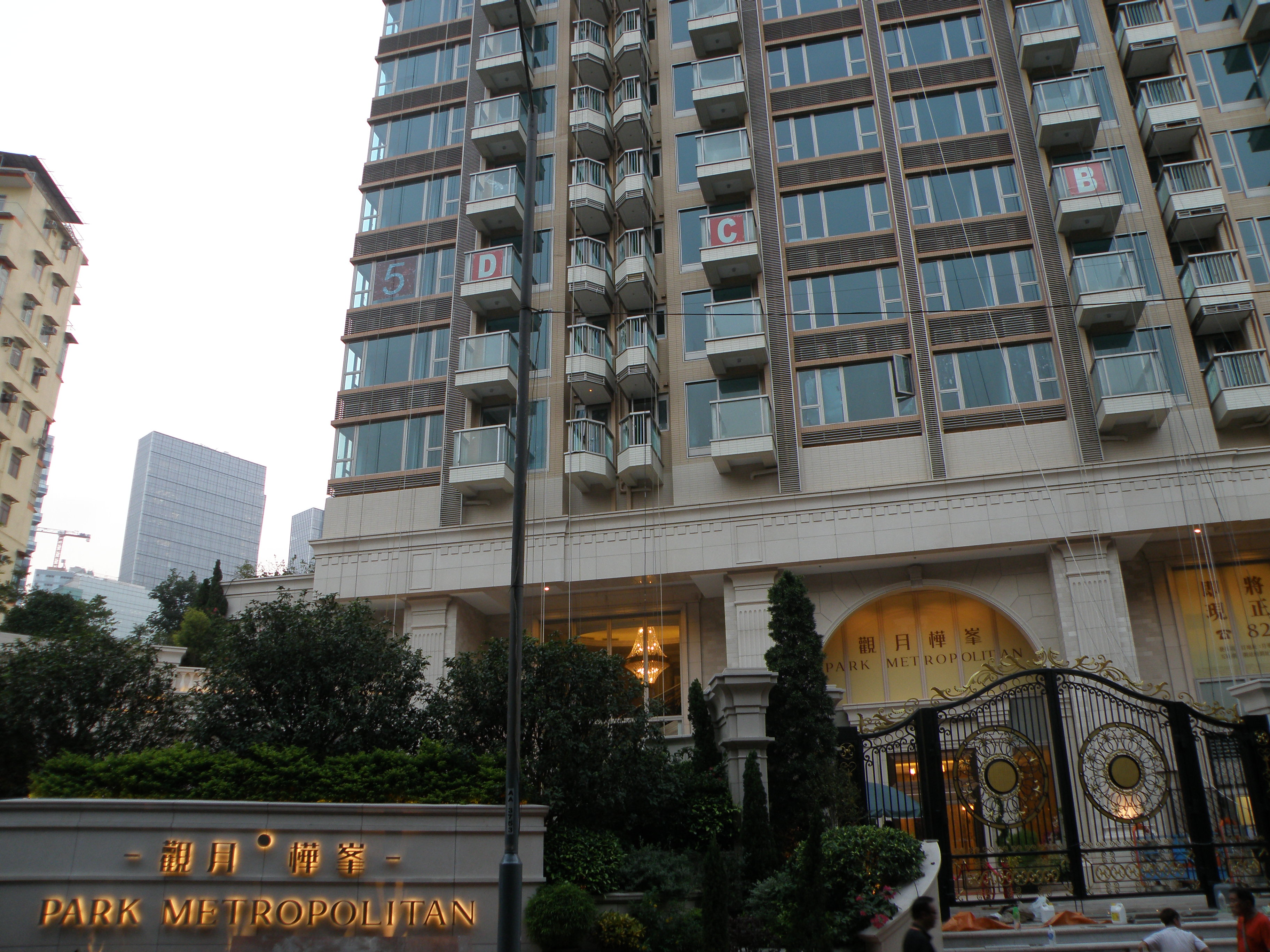 Park Metropolitan residences entrance in Kwun Tong, Hong Kong.